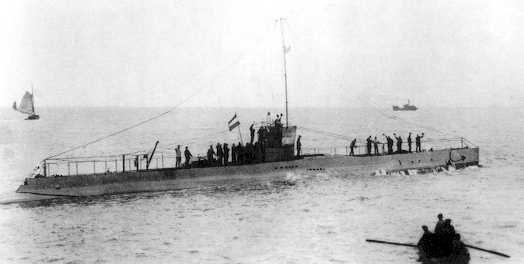 Dutch submarine K III at september 4th 1920